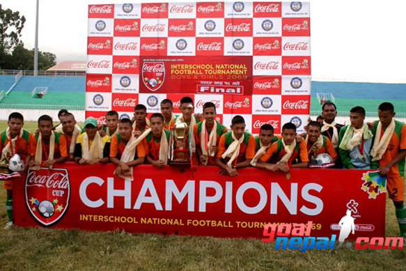 Sainik school winning cocacola cup at 2069 BS